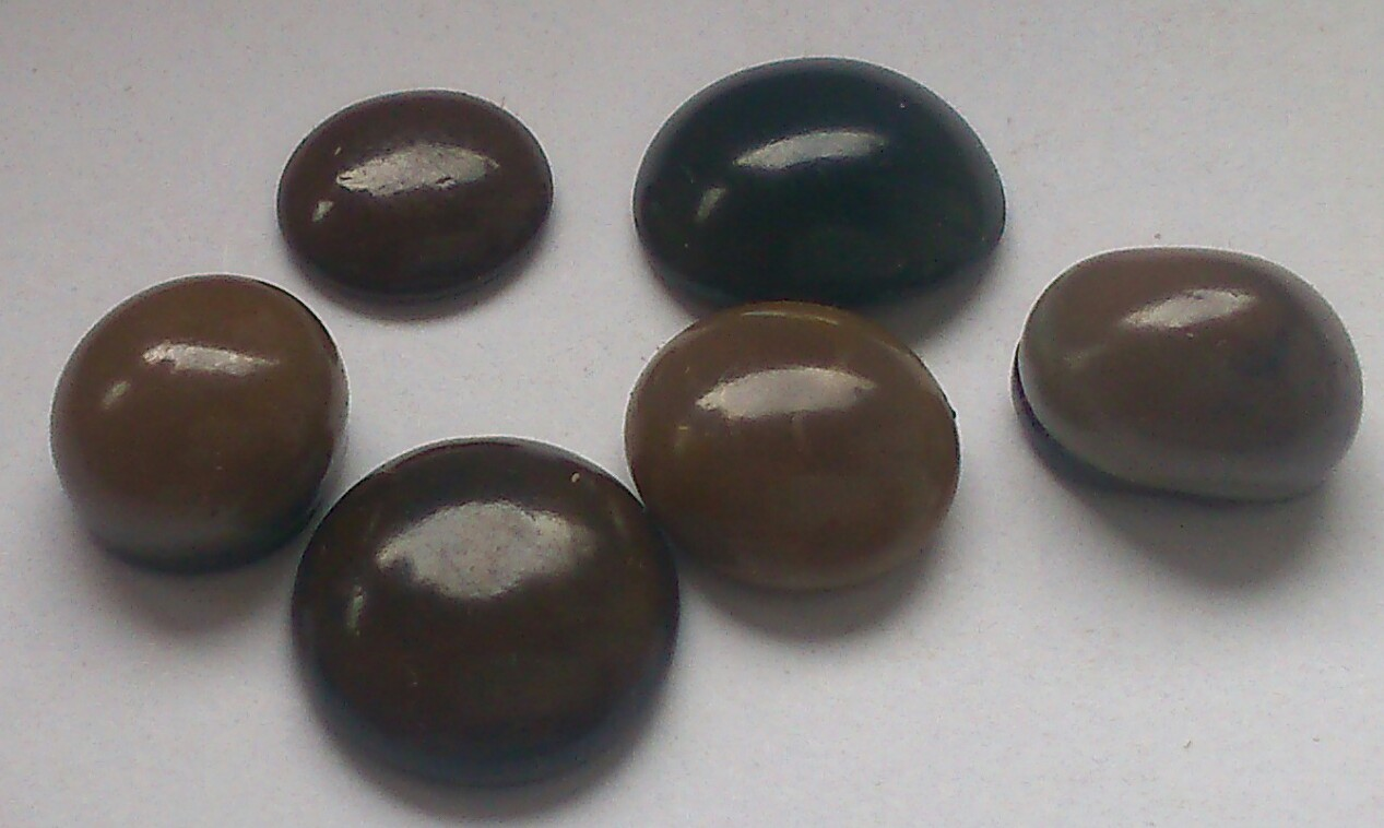 Toadstone fossils, once thought to grow inside the heads of toads Other information Private collection